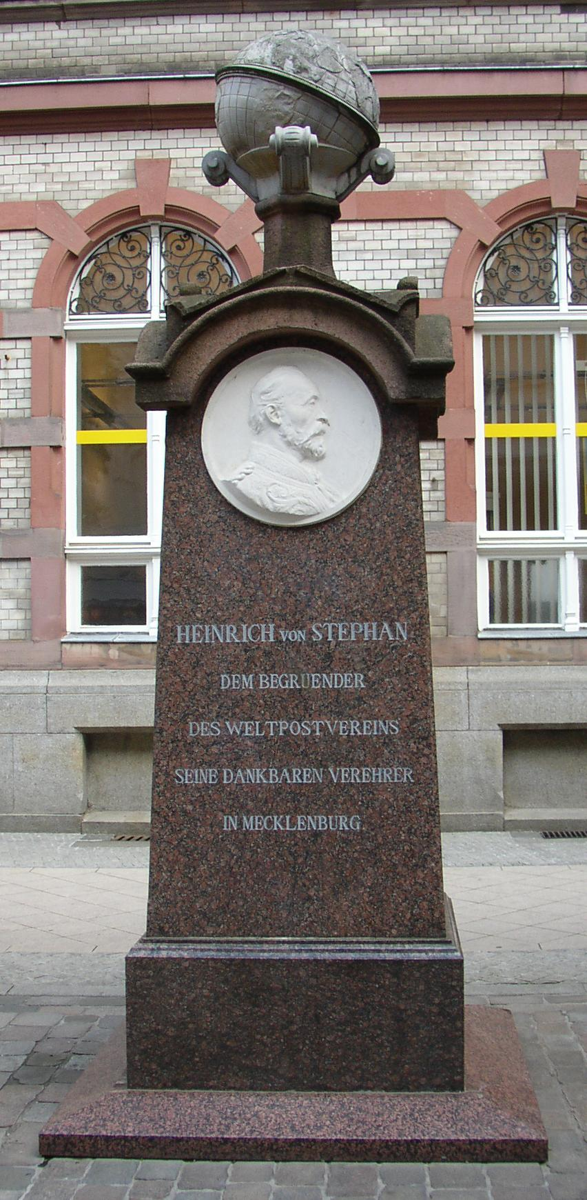 Memorial for Heinrich von Stephan with plaque by Wilhelm Wandschneider in Schwerin in Mecklenburg-Western Pomerania, Germany